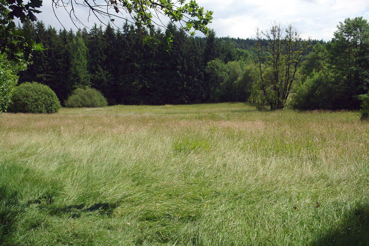 Nature reserve Podlesí near Býkovice village in Benešov District, Czech Republic